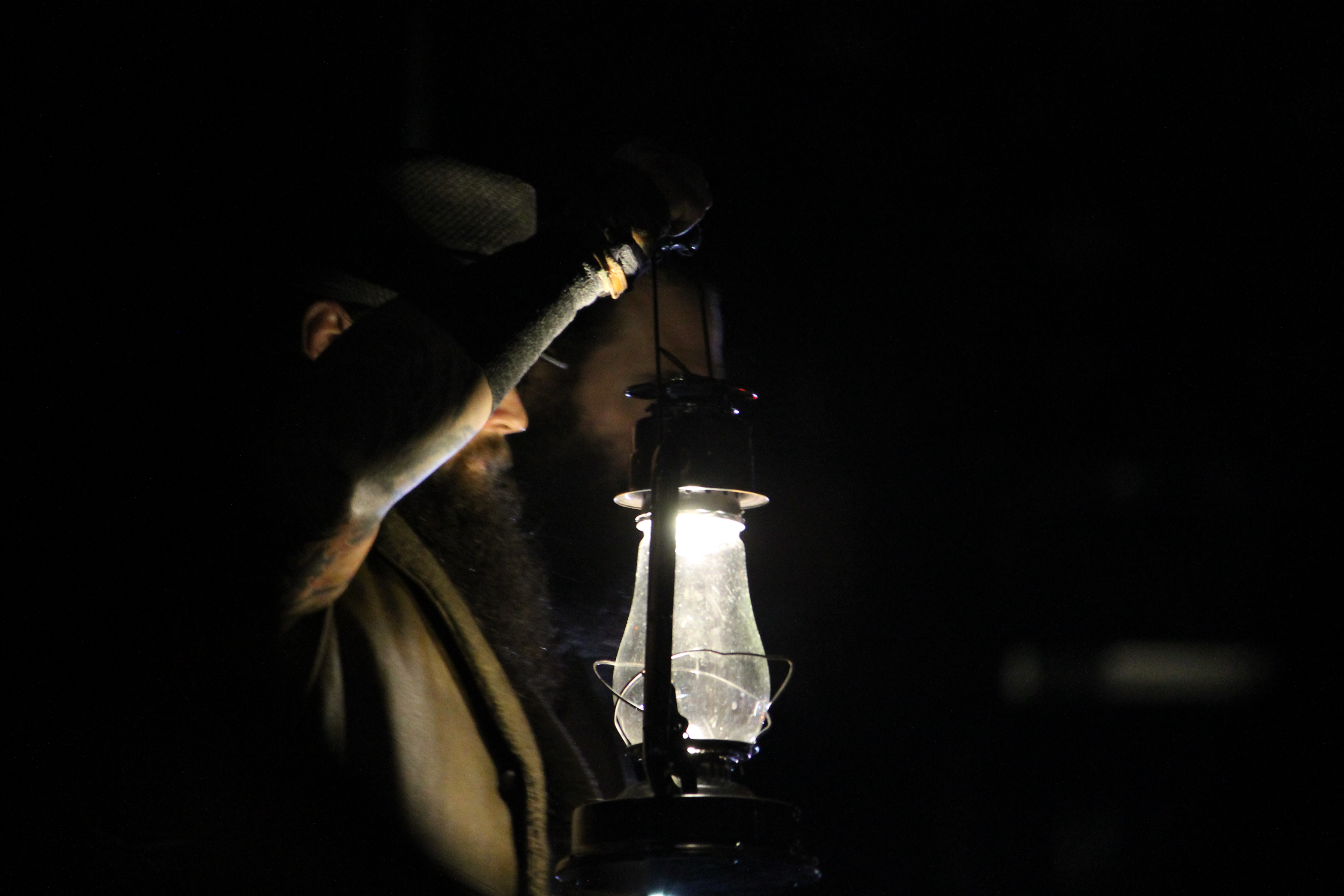 The Wyatt Family make their entrance at WrestleMania XXX on 6 April 2014 in the Mercedes-Benz Superdome in New Orleans, Louisiana. Bray Wyatt is holding the lantern while Luke Harper is partially obscured.